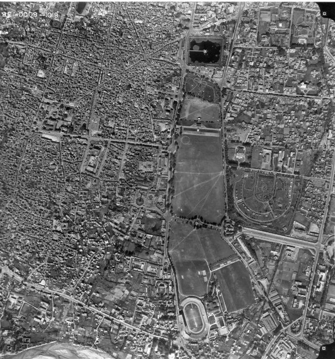 Aerial photograph of Tundikhel open ground in Kathmandu, Nepal taken in 1981.